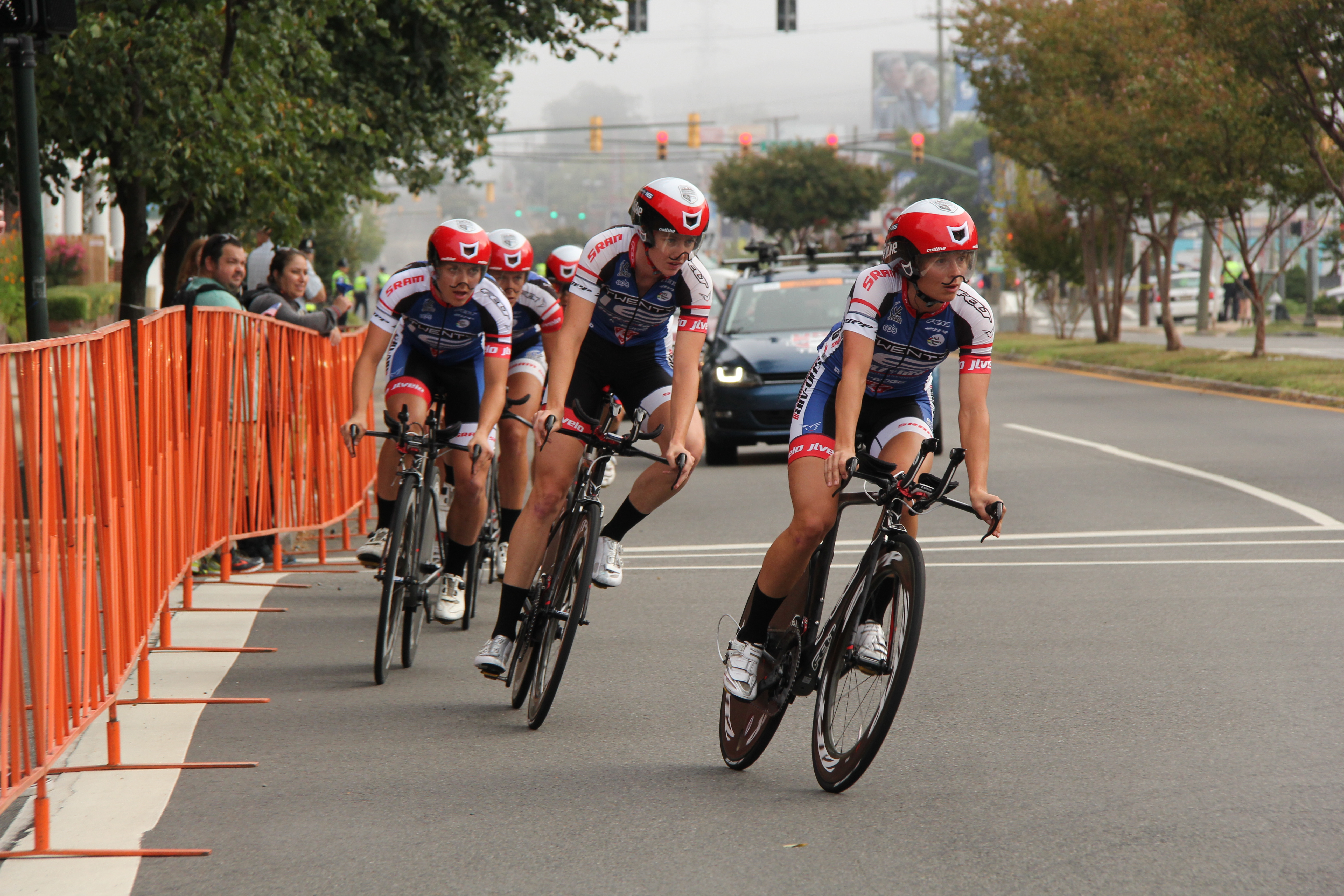 The world has come to Richmond. Welcome! Bienvenidos! Willkommen! 2015 UCI Road World Championships, in Richmond, United States